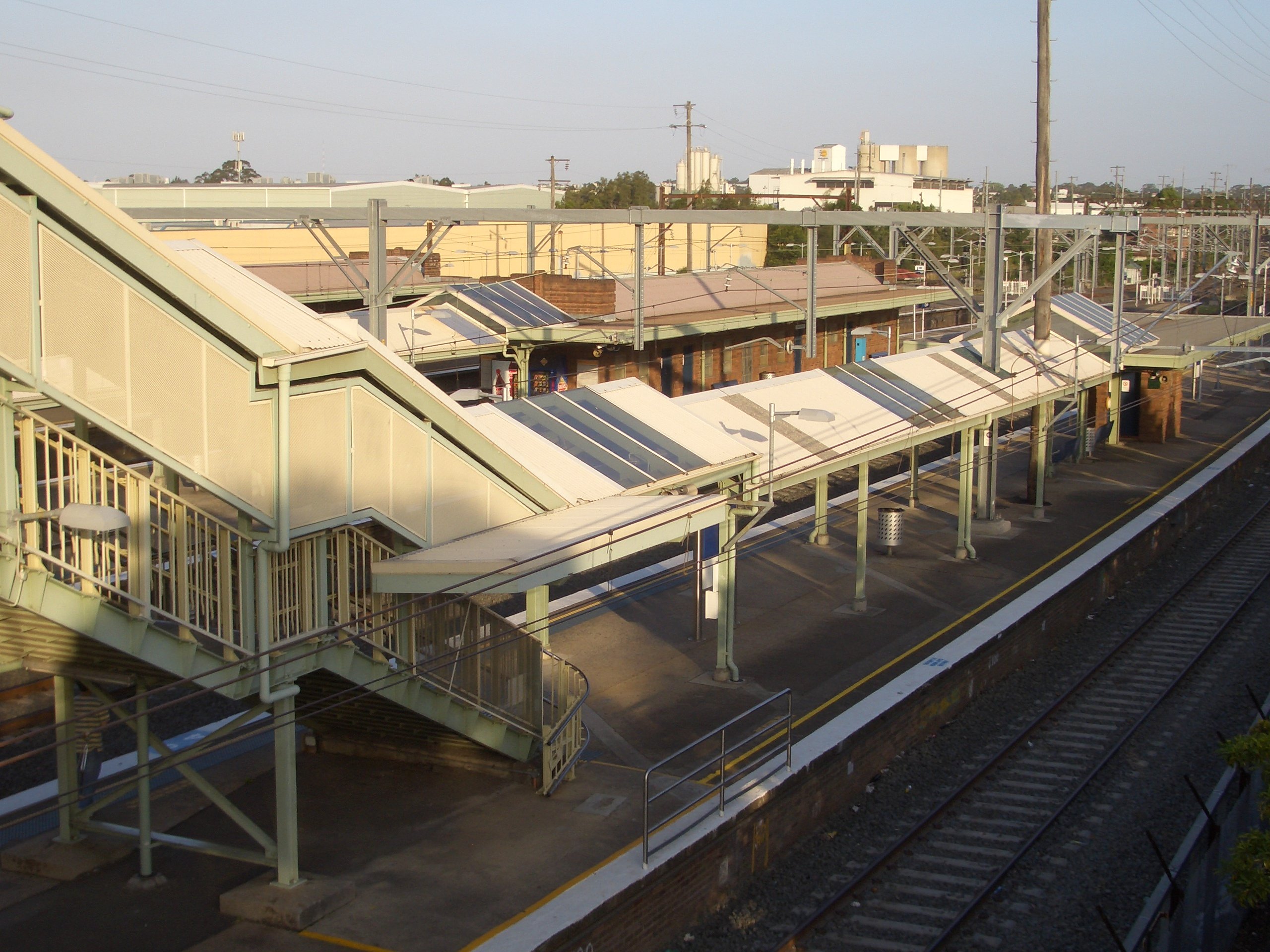 Clyde railway station